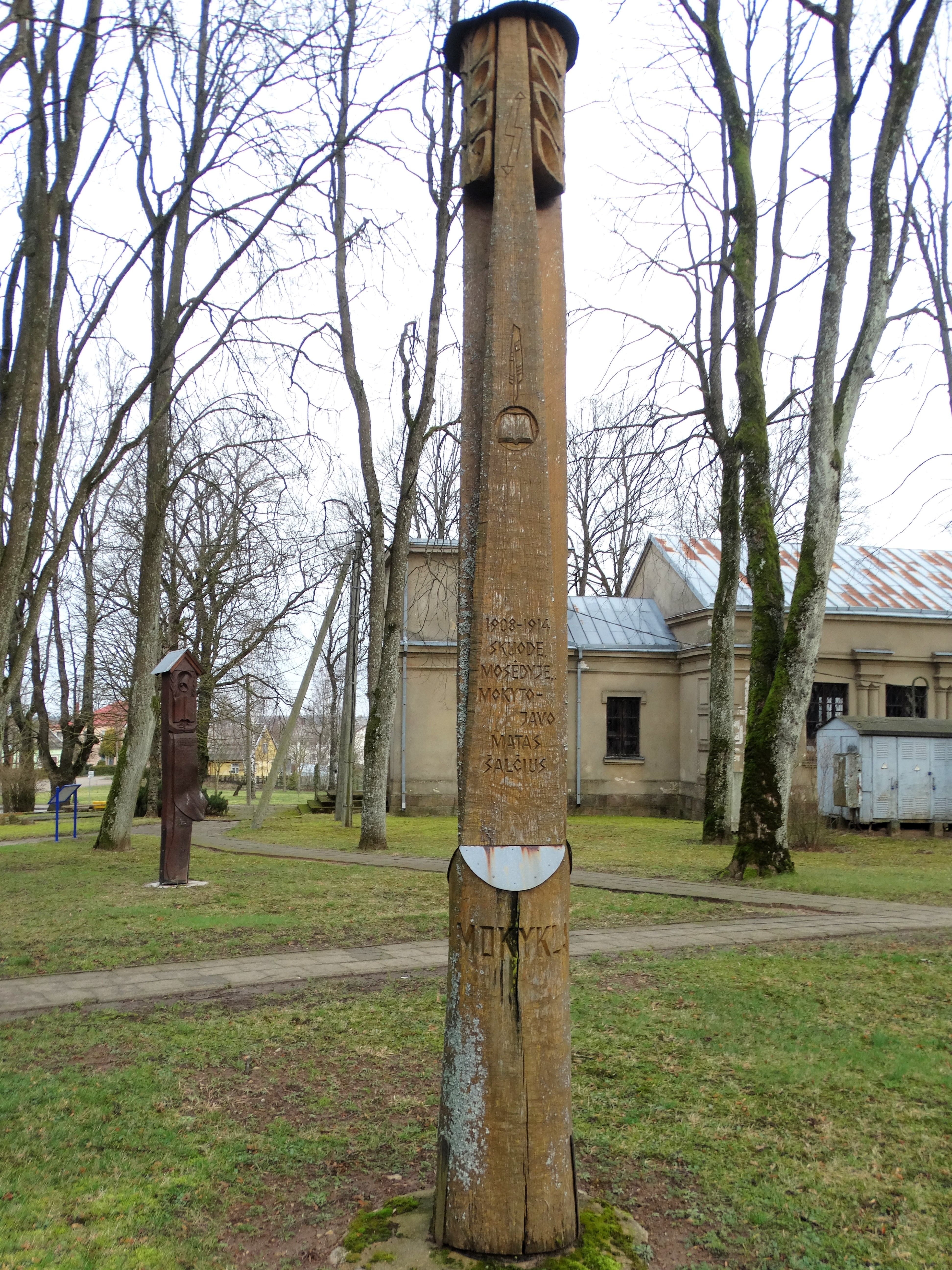 Wooden sculpture to Matas Šalčius, park of the former manor, Skuodas, Lithuania